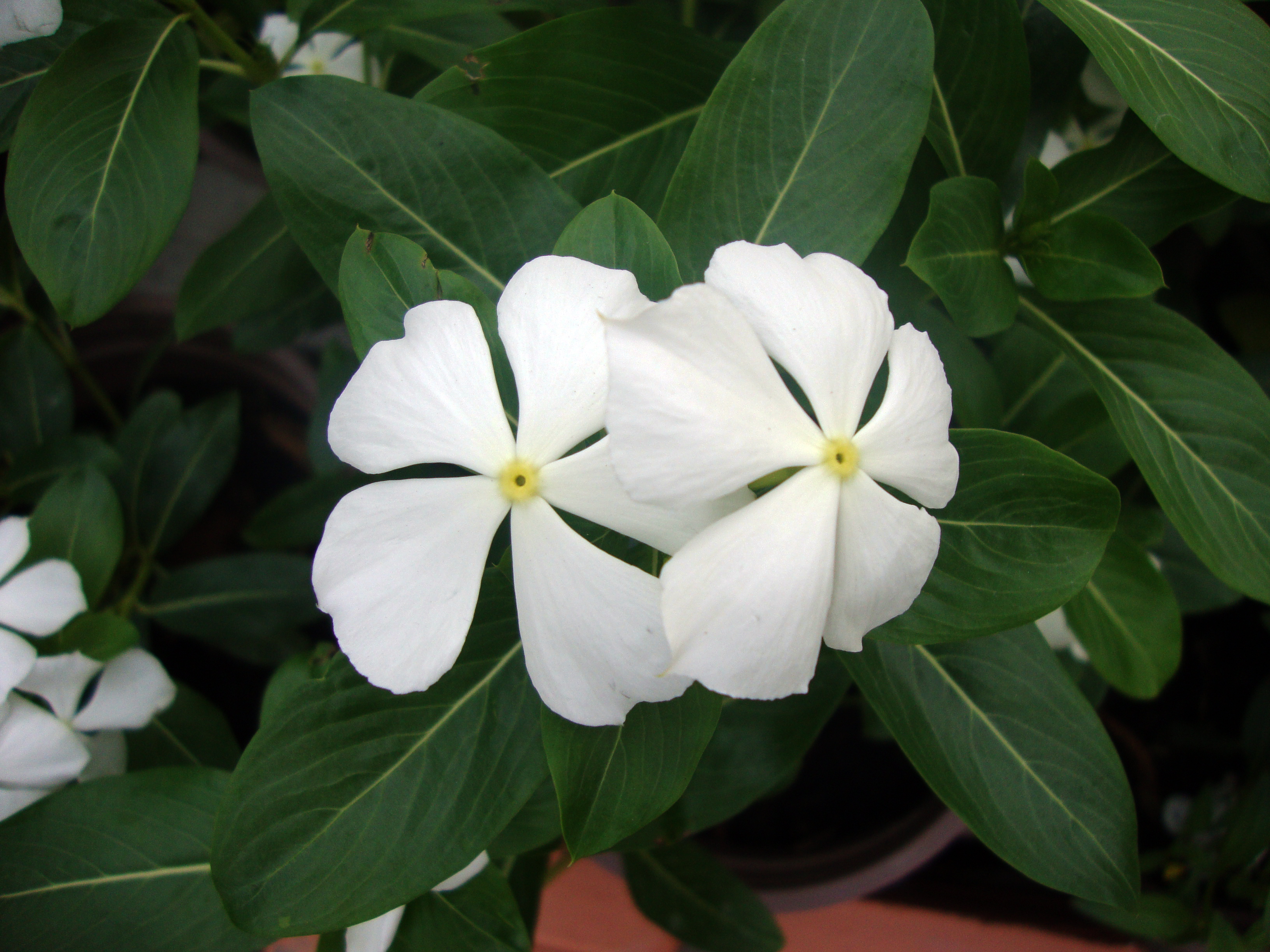 Catharanthus roseus (L.) G.Don, 1837